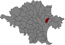 Location of Pau in Alt Empordà